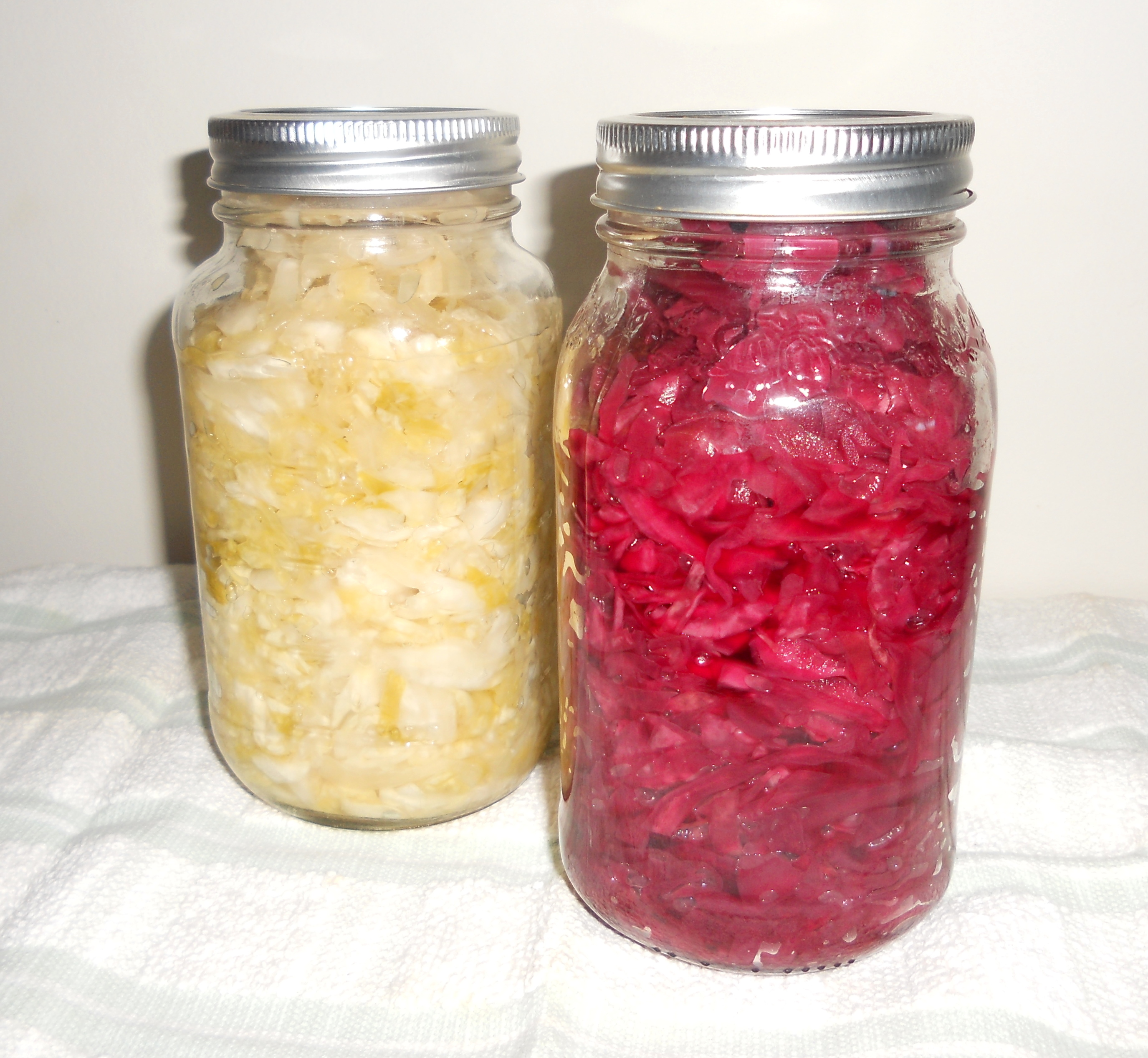 Sauerkraut cans